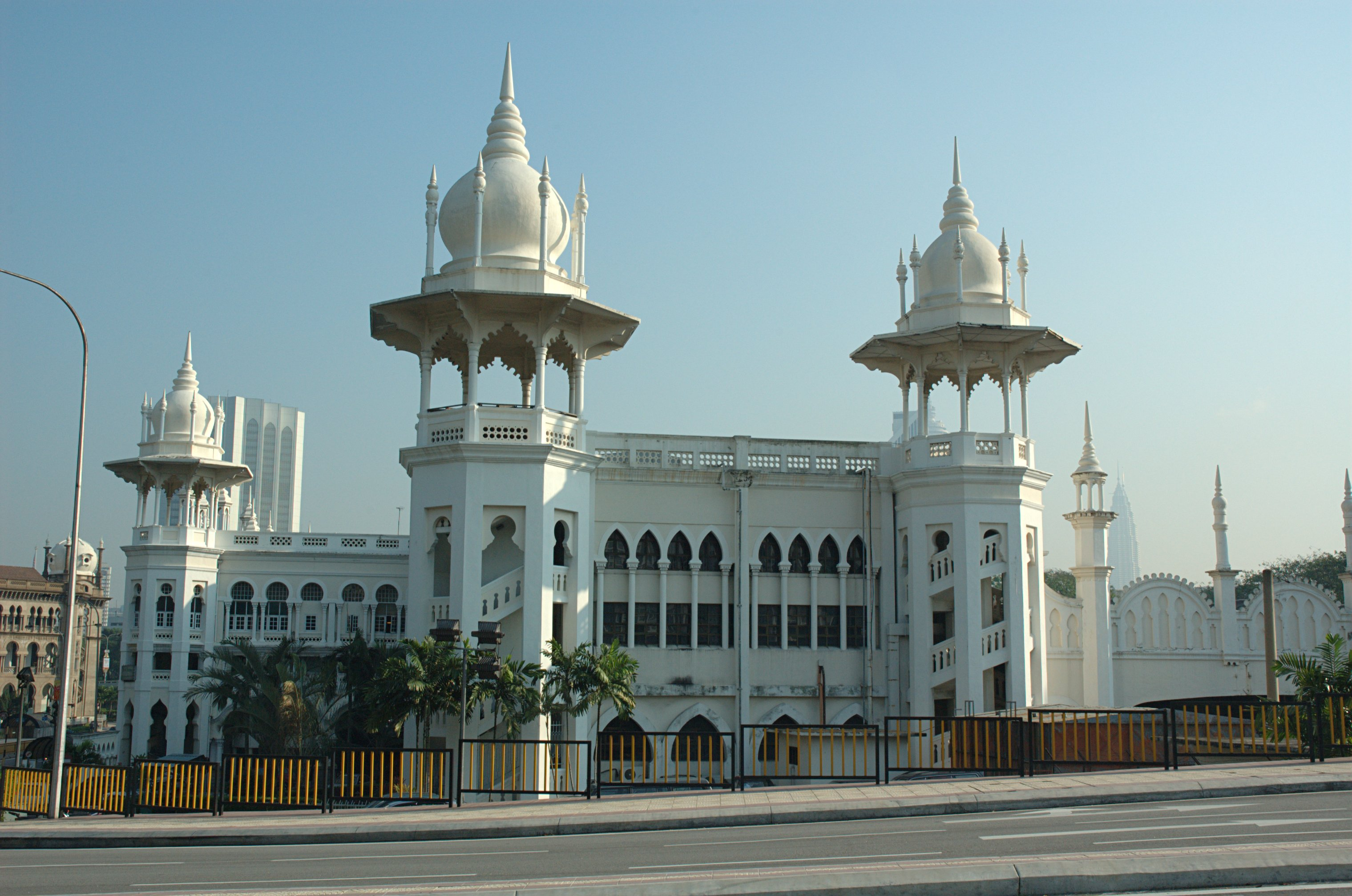 Kuala Lumpur Railway Station, the back end from the street Jalan Sultan Sulaiman.